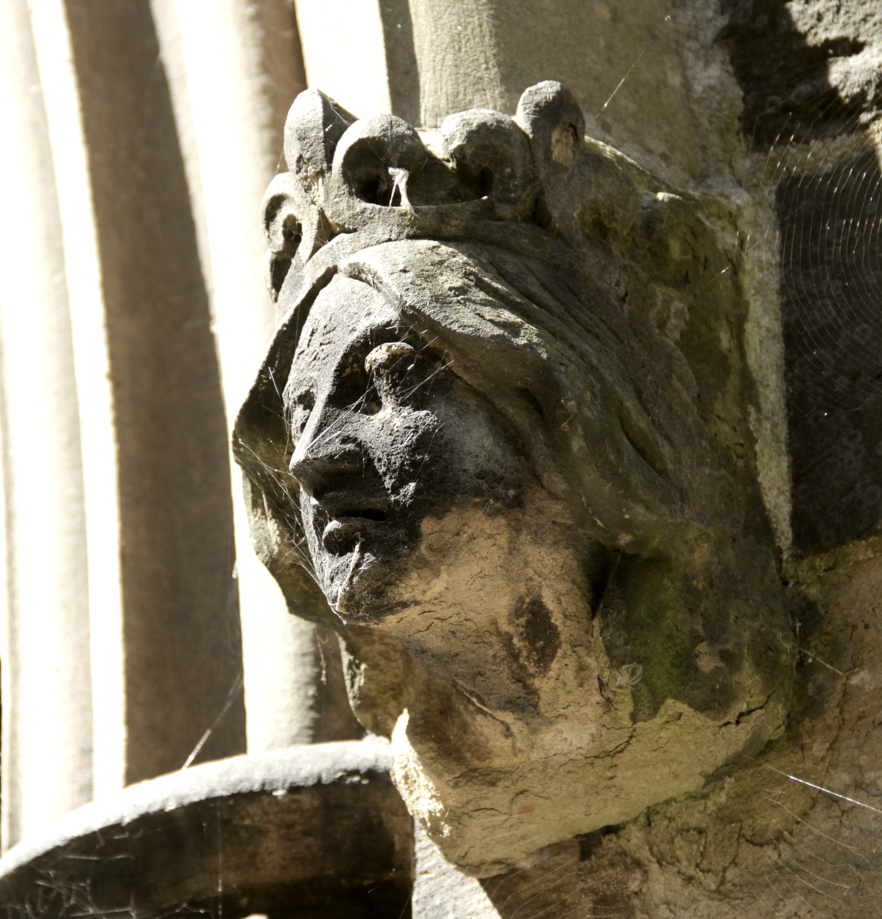 Church of the Holy Innocents, Thornhill Lees, Dewsbury, West Yorkshire, England, designed by Mallinson & Healey and completed in 1858. All carving by Catherine Mawer. Showing one of two label stop heads, representing Church and State, either side of outer porch doorway. This is Queen Victoria, representing the State. Note: Some photographs of carvings high on the tower and spire, and on the clerestory, will be blurred due to distance.